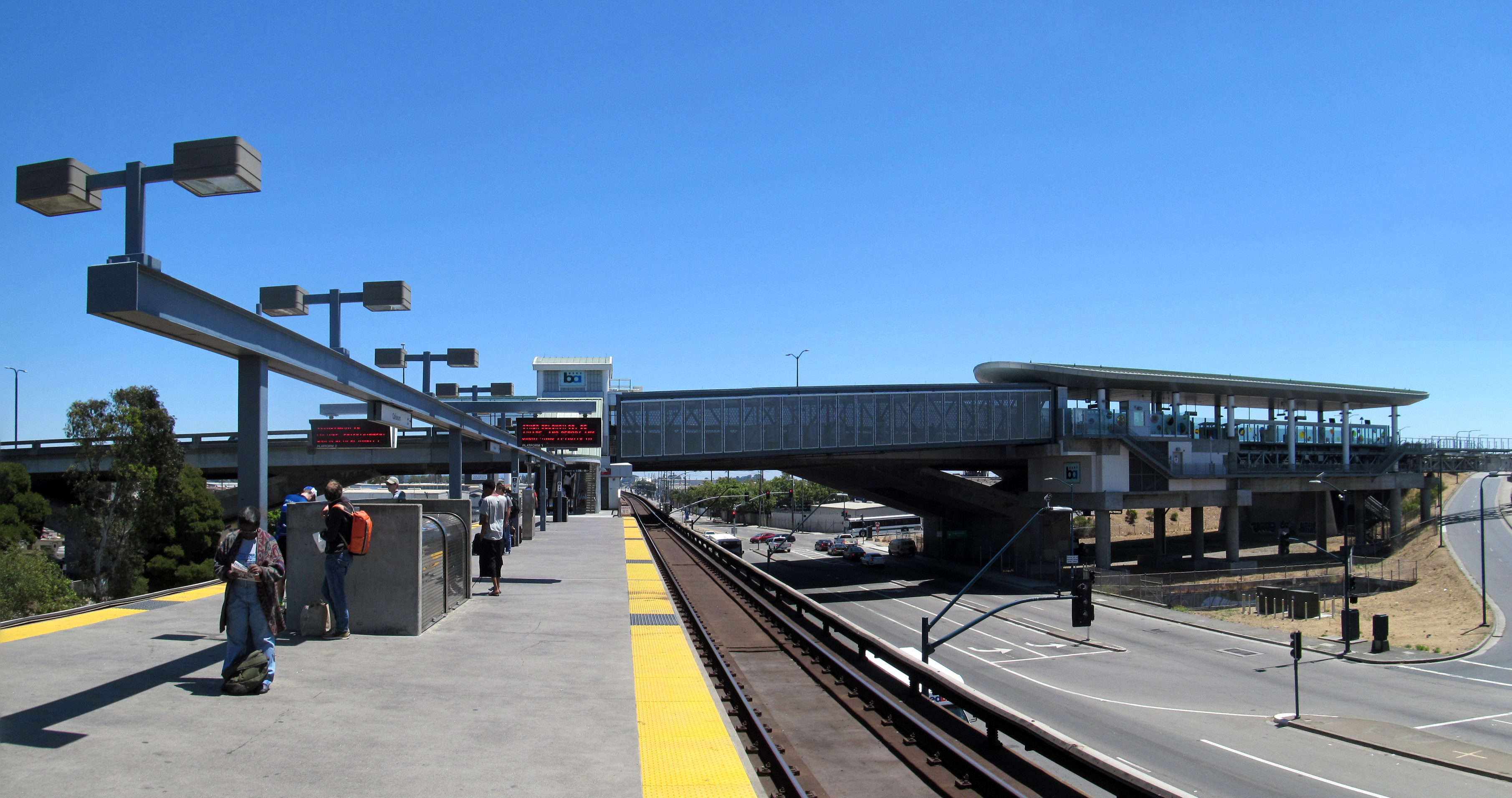 South end of the main BART platform at Oakland Colliseum station in July 2017